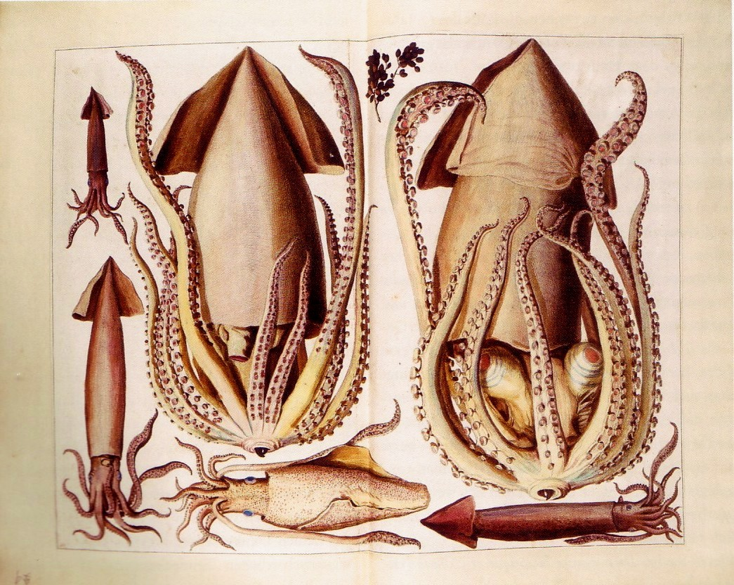 Sepias. Illustration from a famous 18th-century work of reference, edited by Albertus Seba, a Dutch pharmacist and collector of zoological subjects.